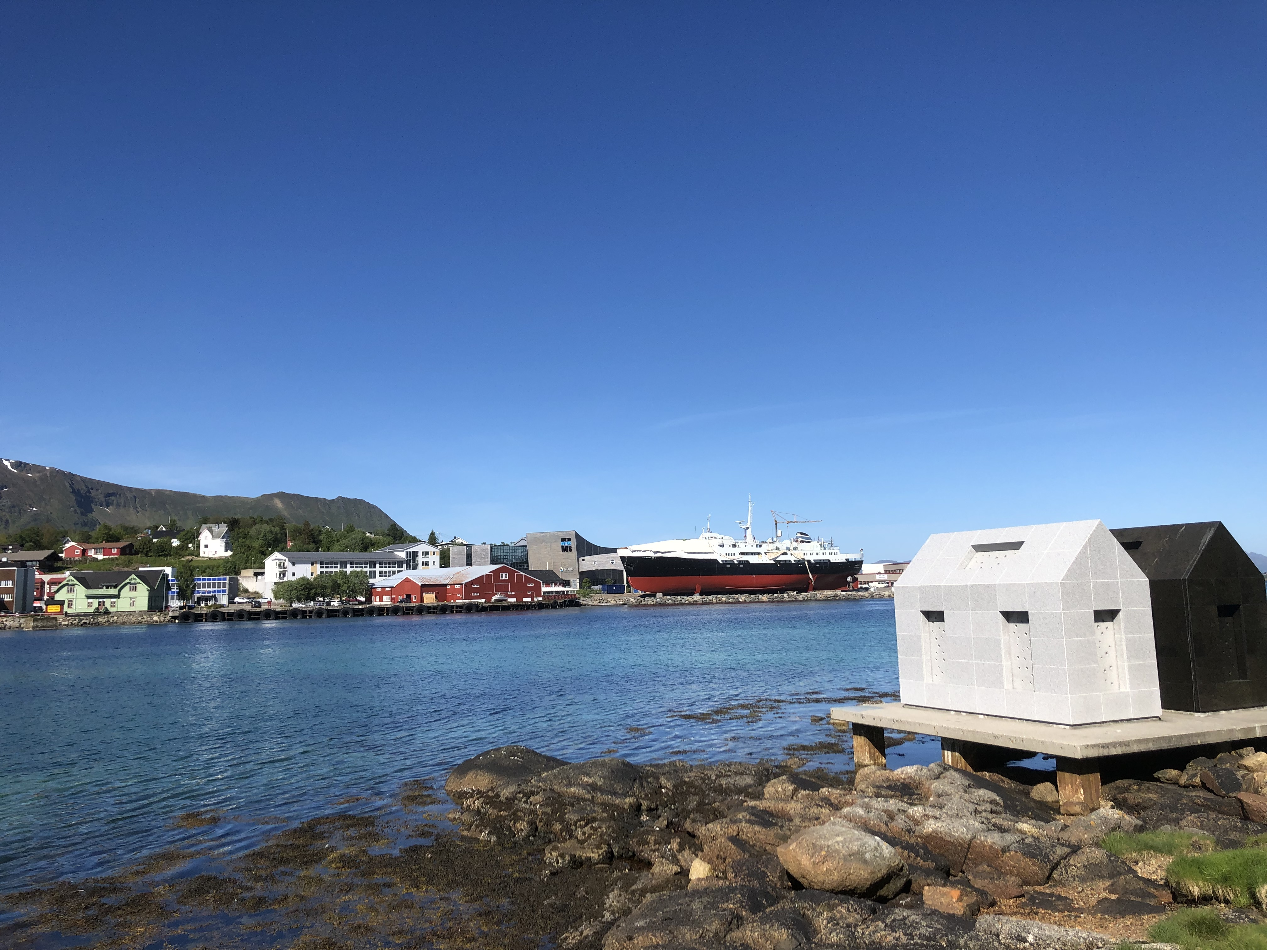 Urban landscape from Stokmarknes, Nordland, Norway